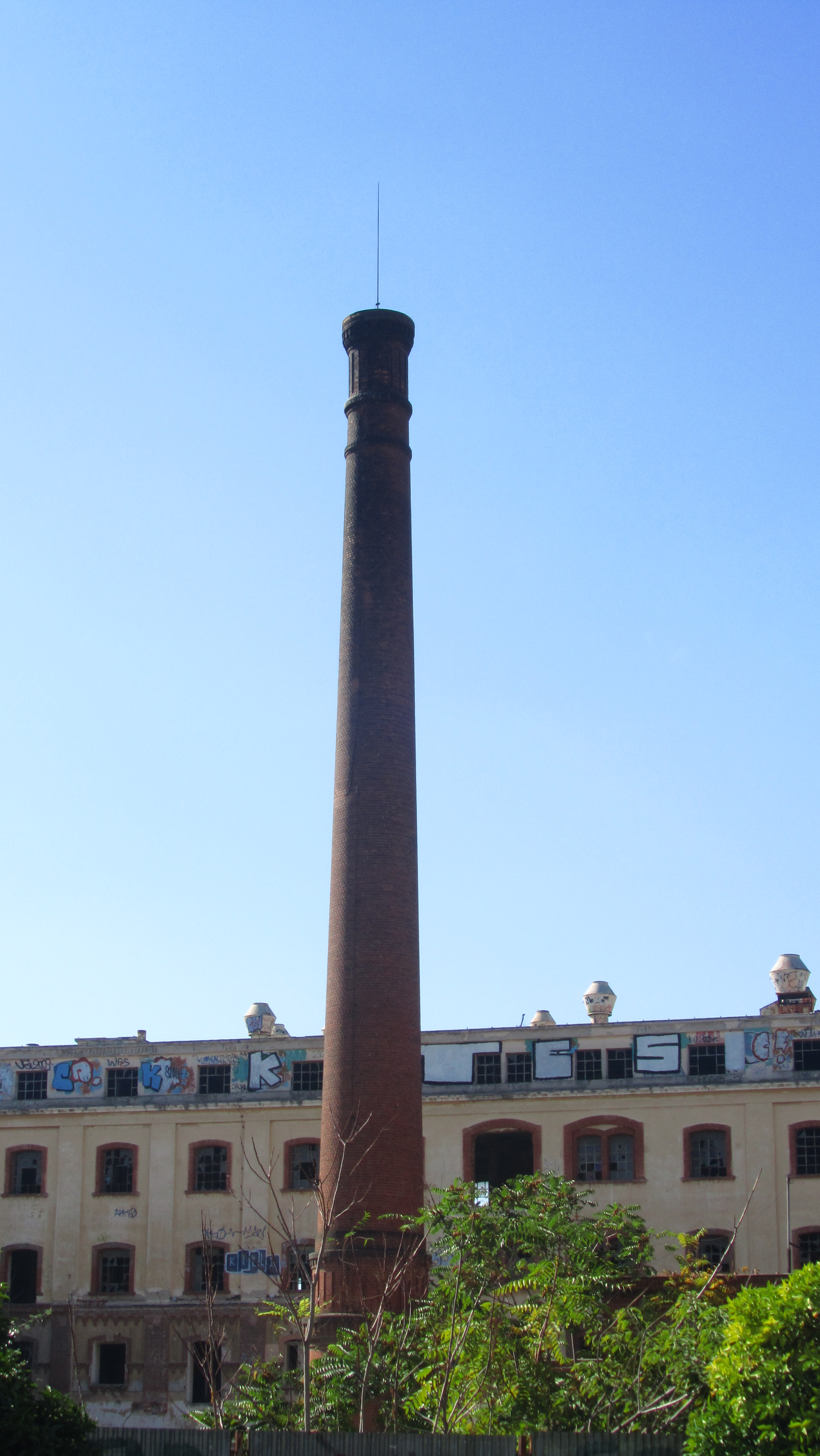 Thessaloniki-The most beautiful CHIMNEY